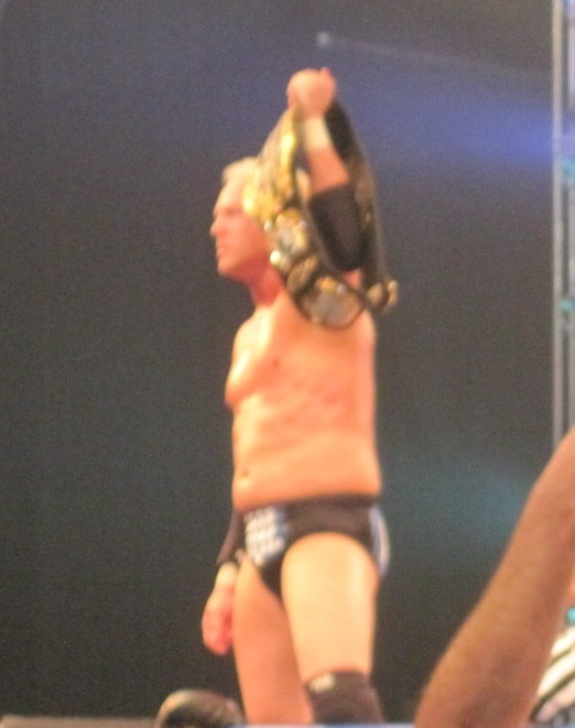 Sunday, June 12, 2011. Universal Orlando